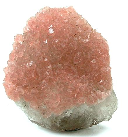 Fluorite, Quartz Locality: Mt Blanc Massif, Chamonix, Haute-Savoie, Rhône-Alpes, France (Locality at ) Size: small cabinet, 8 x 6.7 x 2.4 cm Pink Fluorite on Quartz This is an unusual specimen in that it is a complete floater: a crust of translucent, pastel pink, inetergrown fluorite octahedrons to .5 cm across, COMPLETELY covers one face of a flattened, gemmy, light smoky, quartz crystal. The quartz crystal measures 8 cm across and again, is complete all around. The fluorite is preferentially only on one side, while the back of the specimen is the flat major face of the quartz crystal. VERY RICH AND COLORFUL with lots of pink for the price!